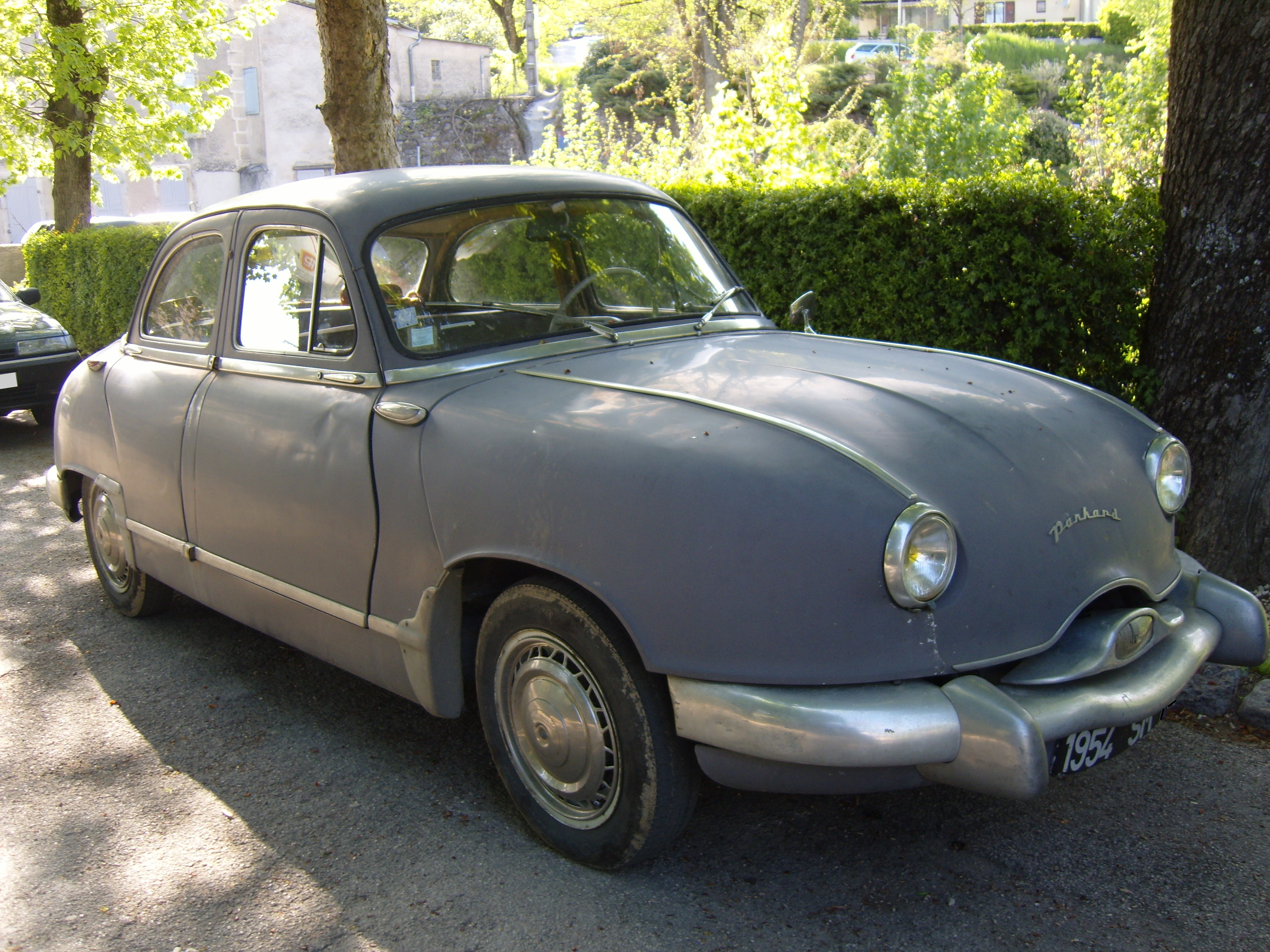 Panhard Dyna Z car, even used in present time.